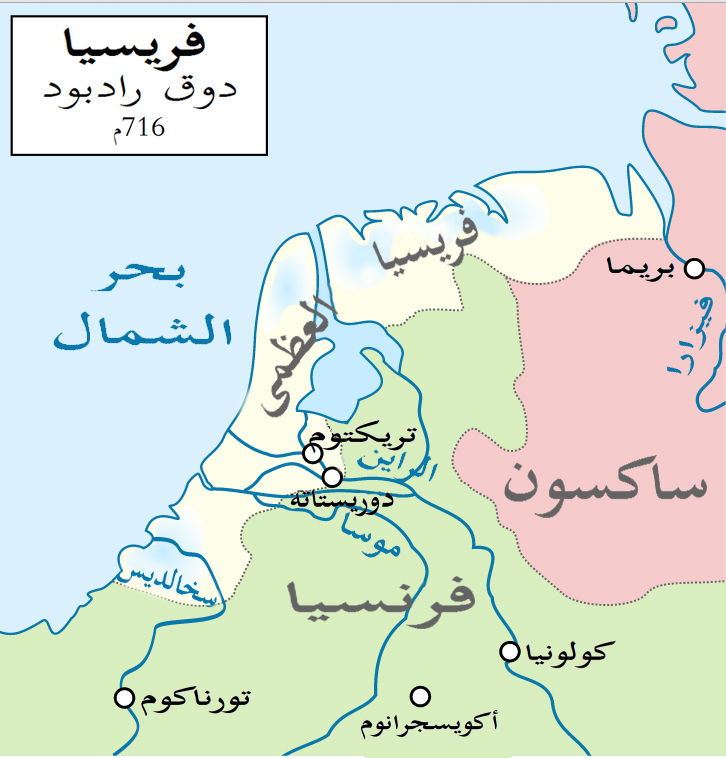 Map of Magna Frisia in Latin.